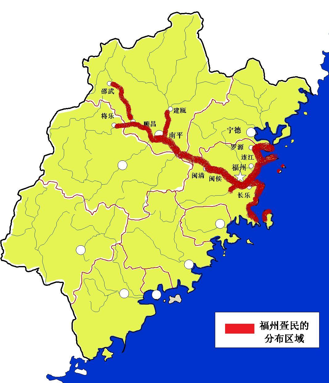 Distribution of the Fuzhou Tanka people